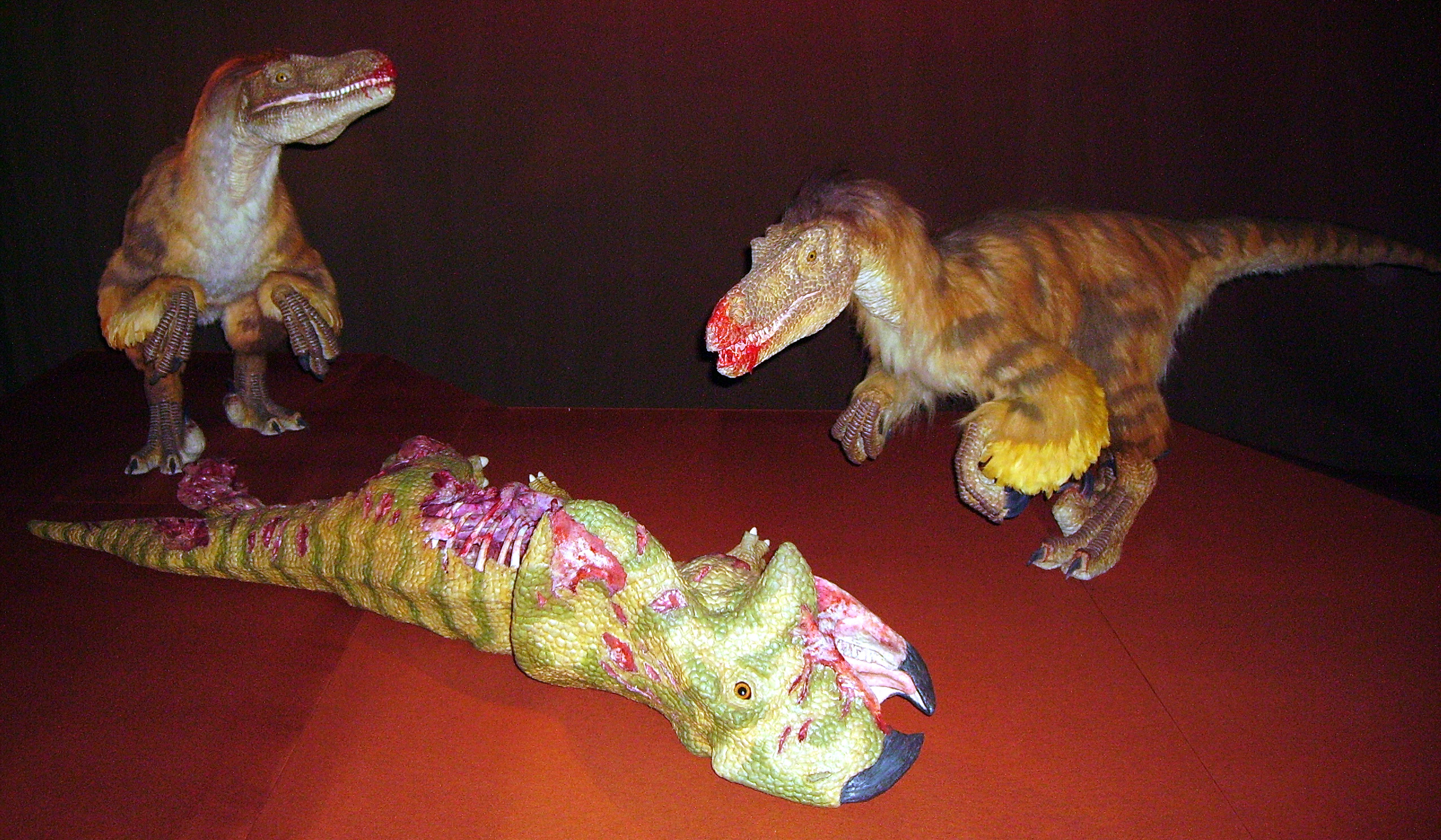 Museum of Natural History, London. Photographed by user:Ballista (From English Wikipedia)